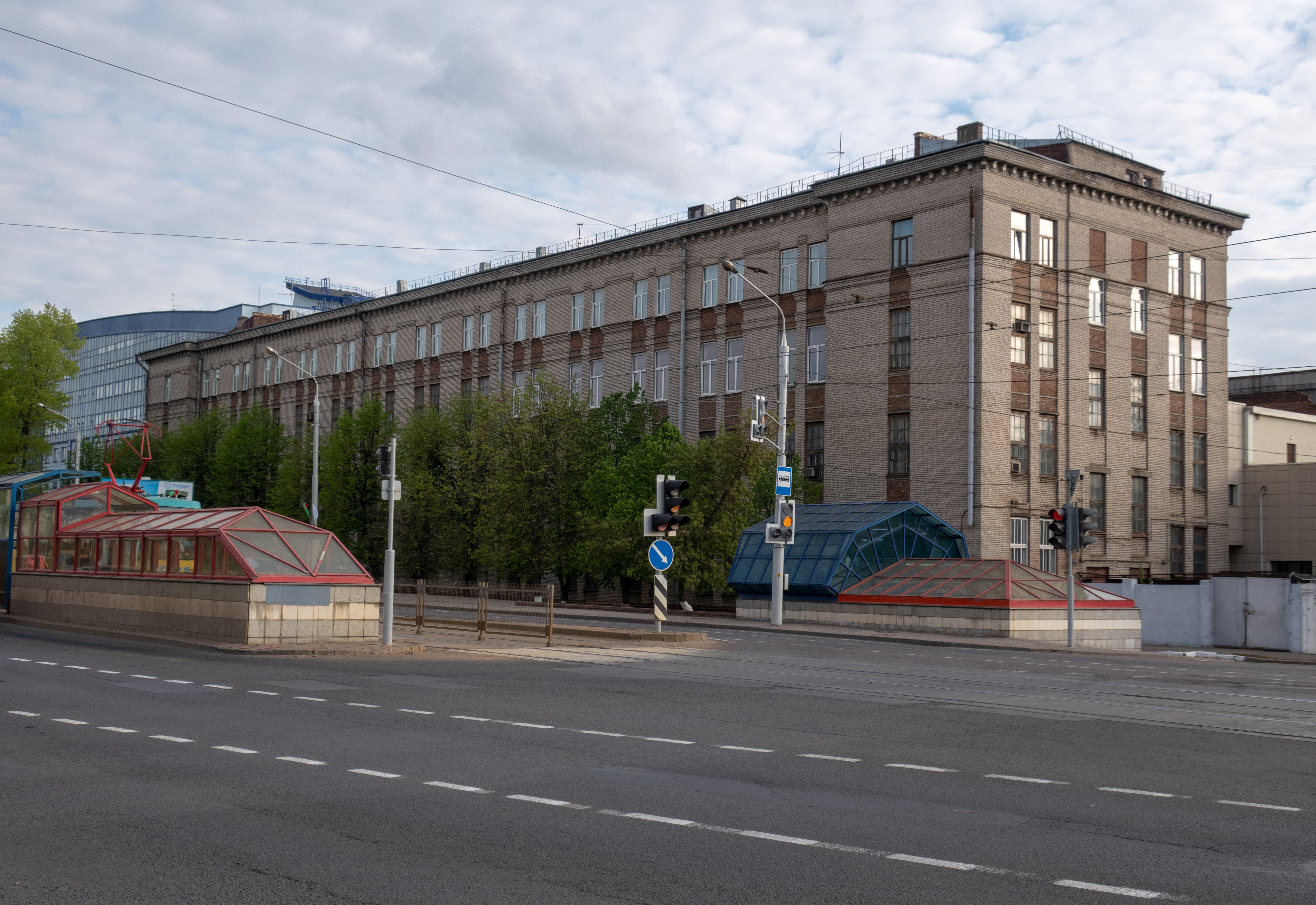 Minsk automatic lines plant named after P. M. Mašeraŭ